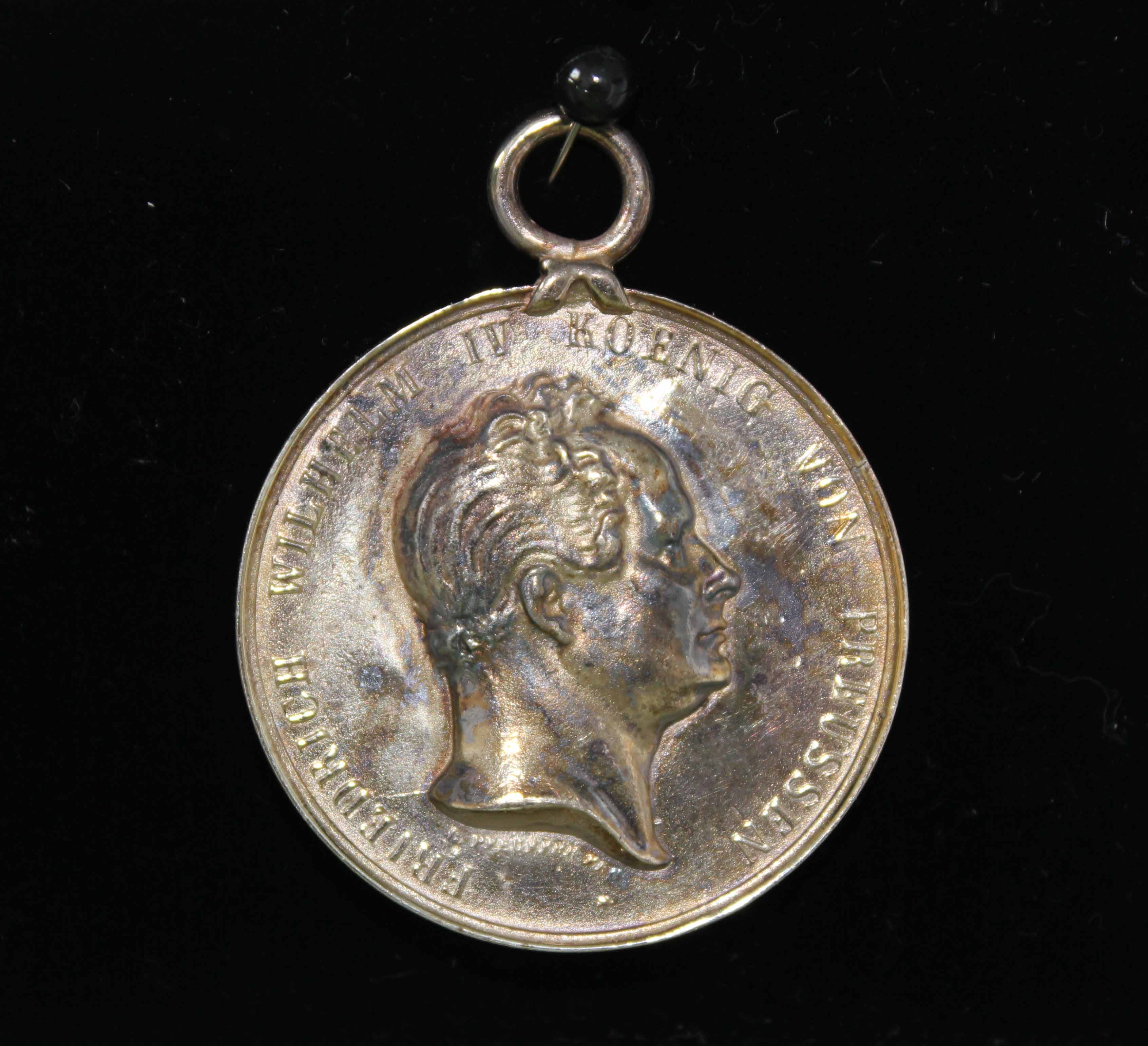 The Gold Medal is awarded for innovative, high quality repair. It was the gift of King Freidrich Wilhelm IV of Prussia (1795 – 1861) to the Incorporated Church Building Society in 1857. The award has been made annually since the early 1980s, when the medal was re-discovered during an office move. The medal is held for one year and afterwards a silver replica is provided. The work of the Incorporated Church Building Society is now administered by the National Churches Trust.